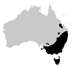 Distribution of the Common Eastern Froglet (Crinia singifera) in Australia.